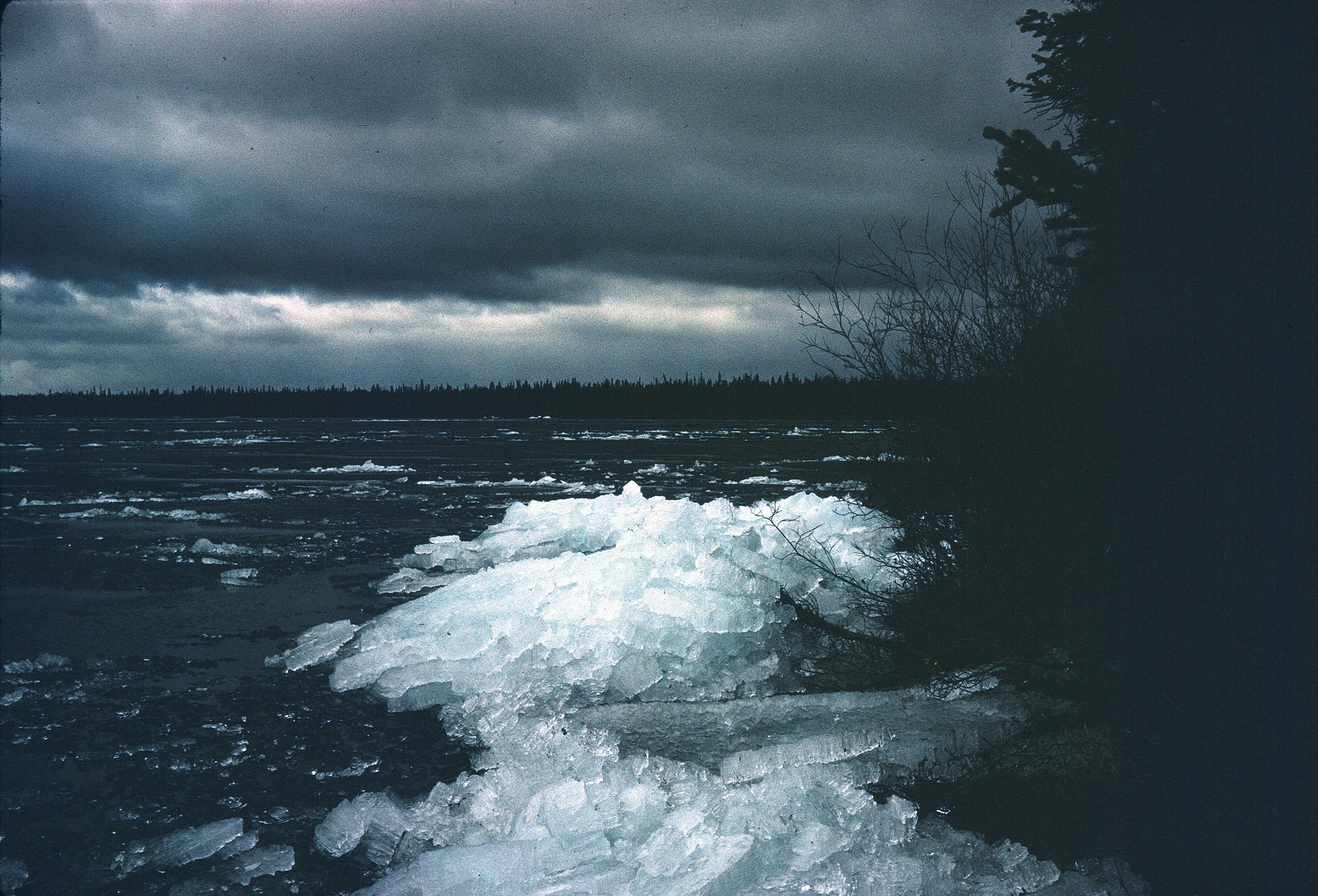 Candle ice slabs blown onshore and individual candles that have separated are floating and clinking together with the motion of the water.